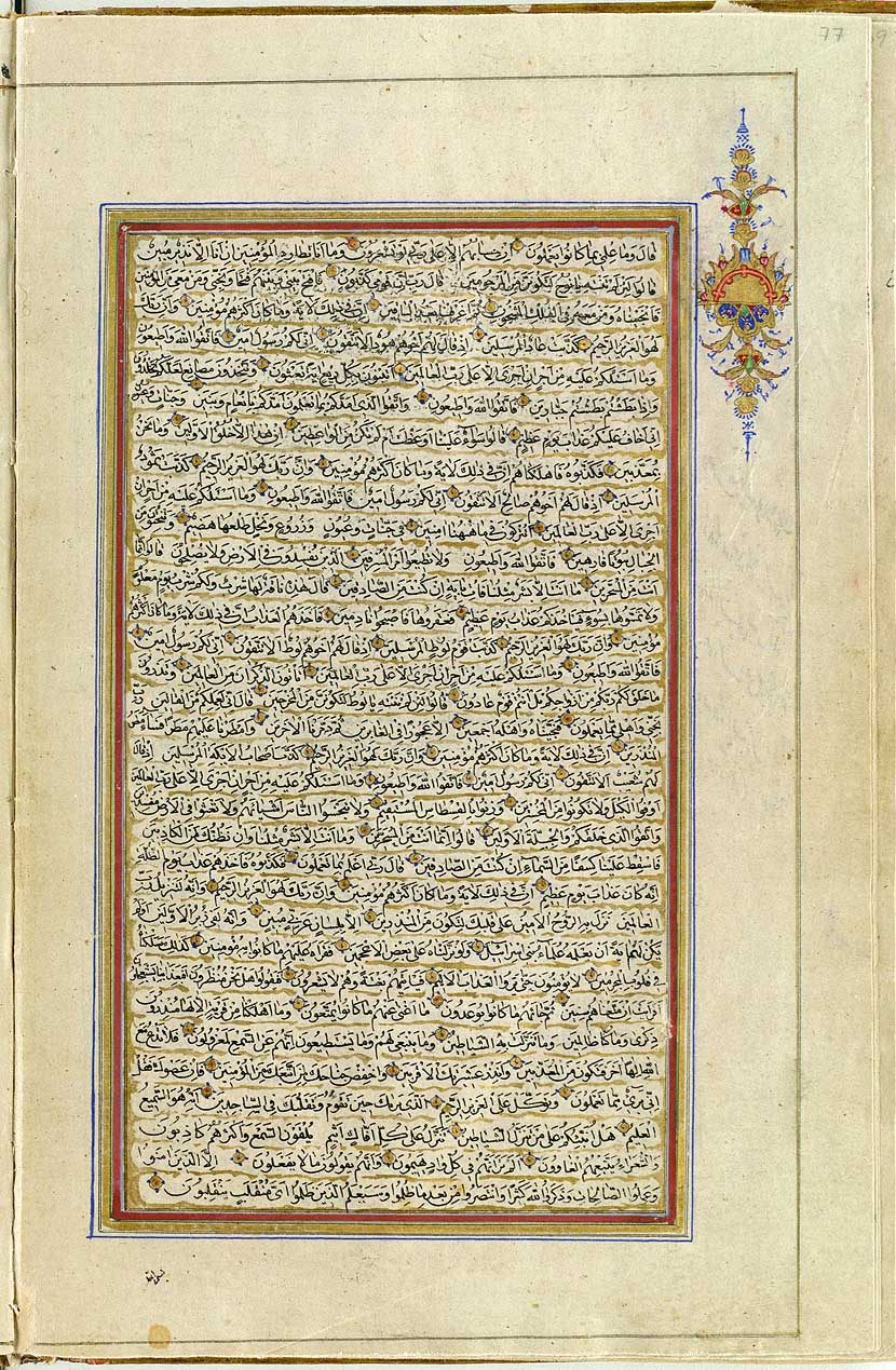 Scan of a Qur'an from the year 1874